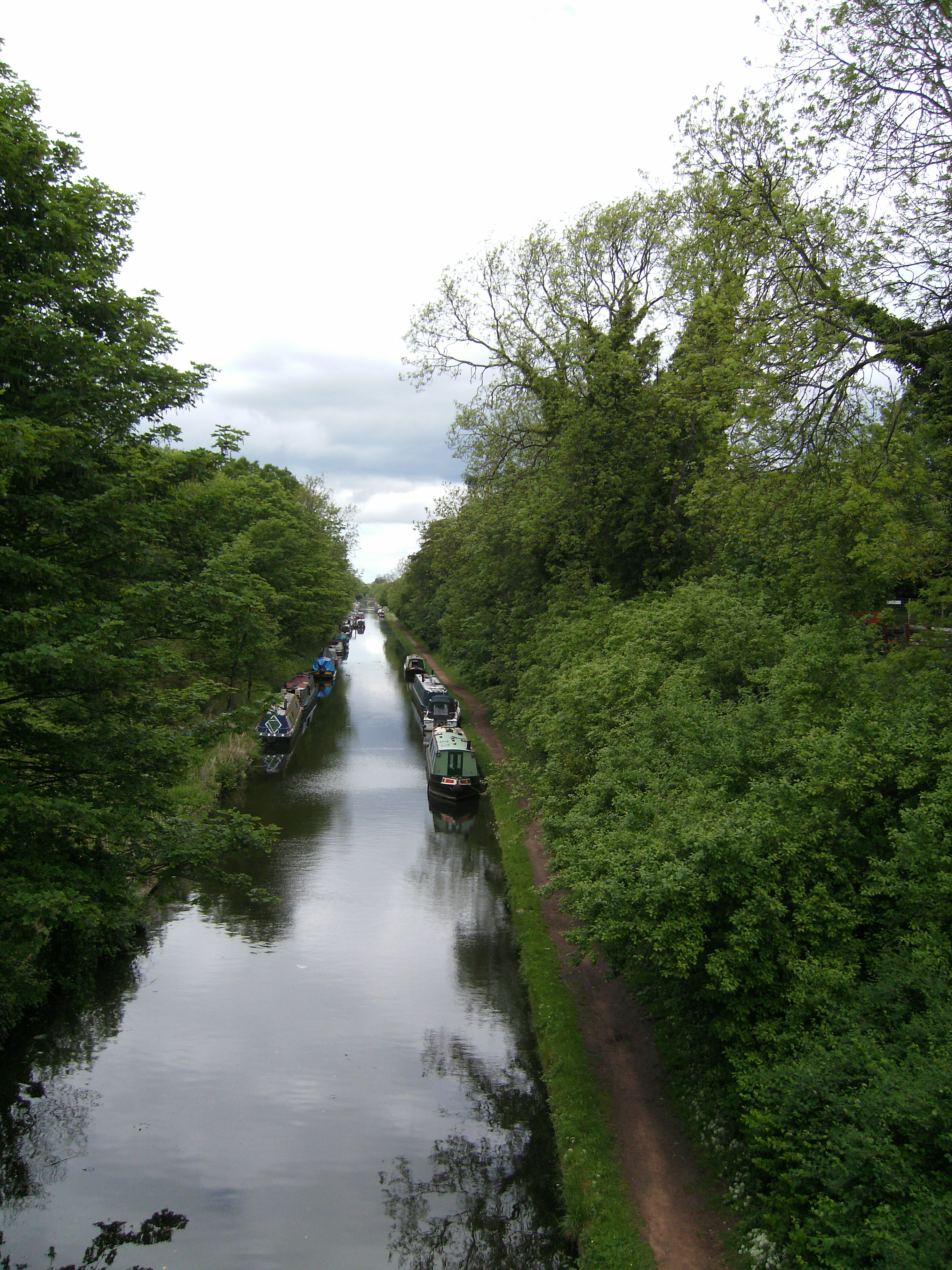 Shropshire Union Canal looking north from bridge at Brewood, Stafforshire, England